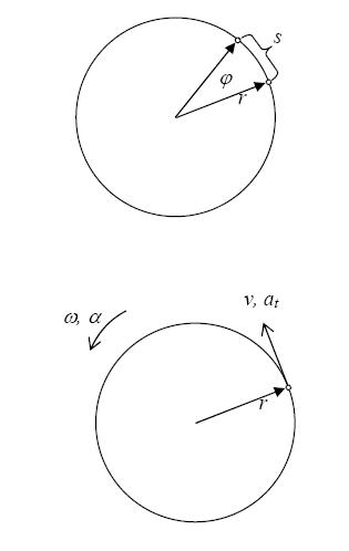 Linear and rotational quantities in circular motion